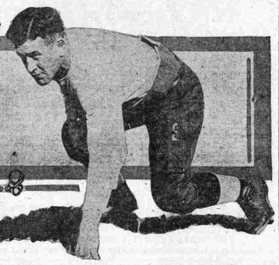 American football player James A. "Babe" Brown